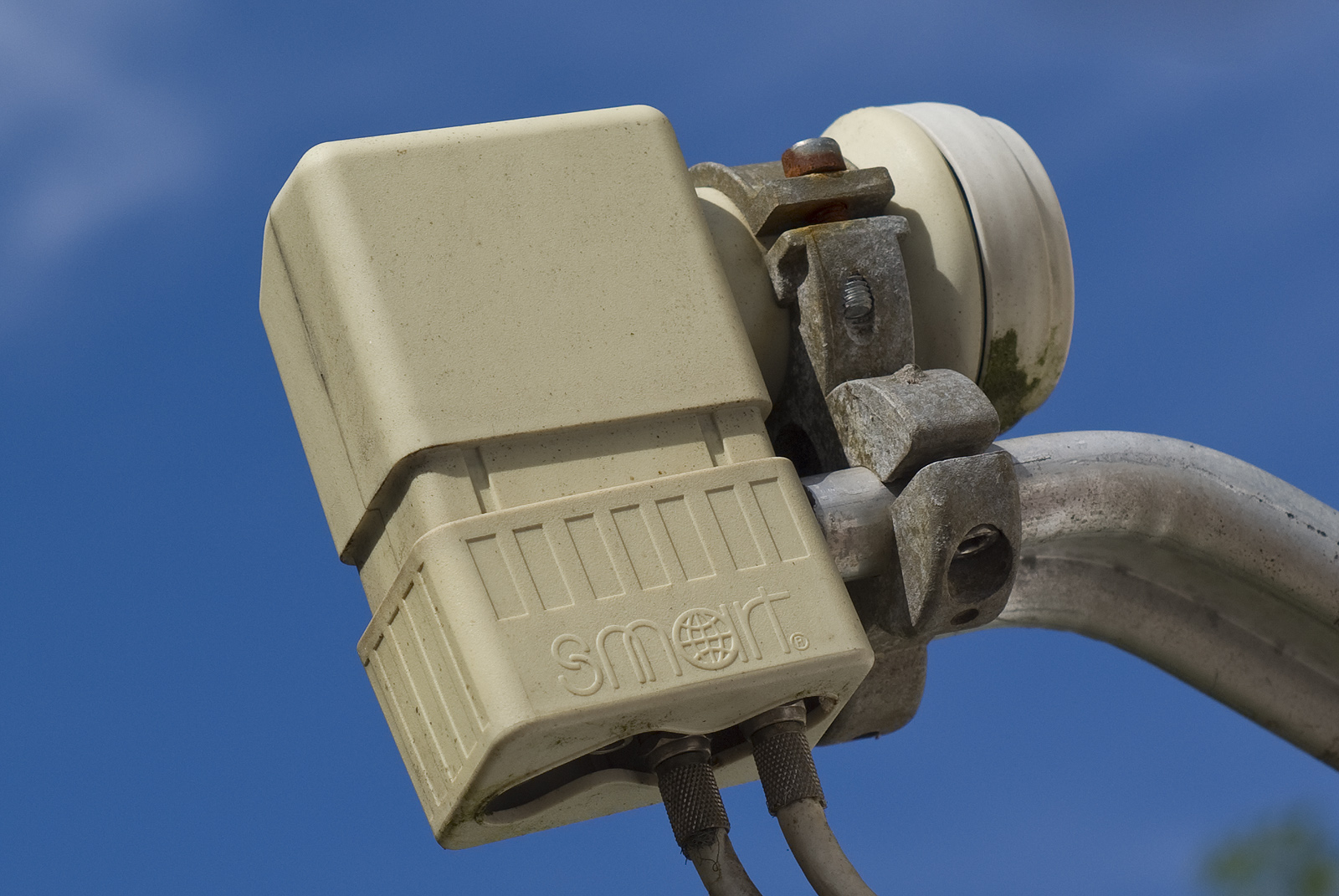 Low-noise block converter. (LNB / LNC)